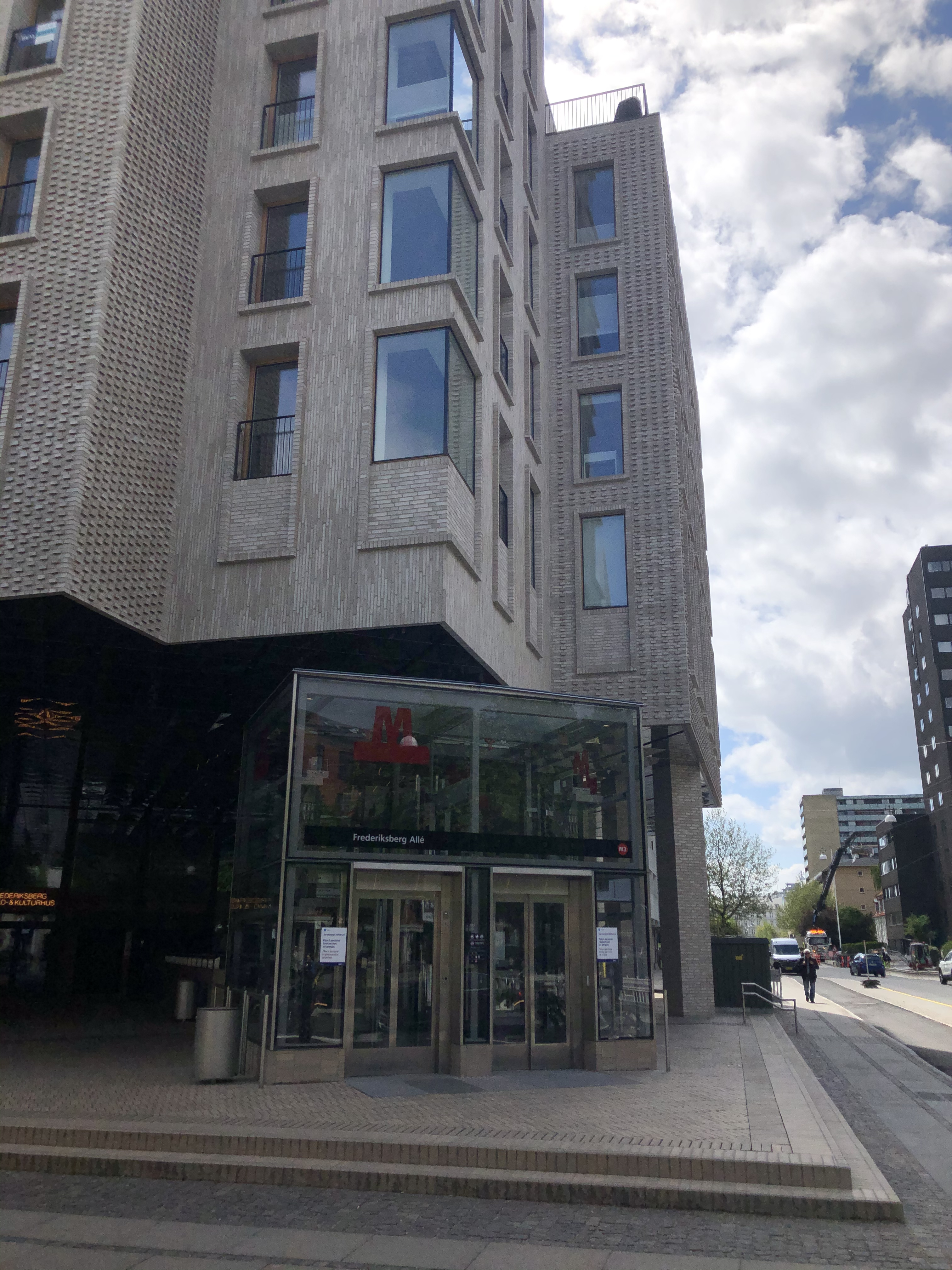 Metro Station in Frederiksberg, Denmark